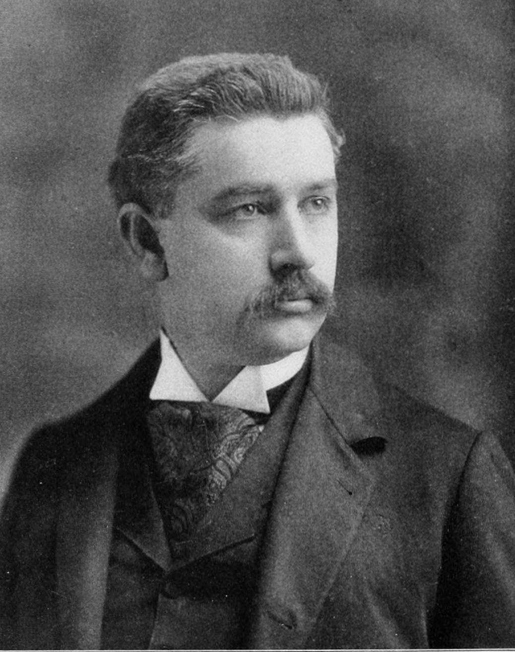 Kentucky Congressman Charles K. Wheeler